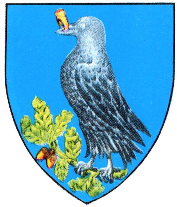 Interwar coat of arms of Hunedoara County, Kingdom of Romania.